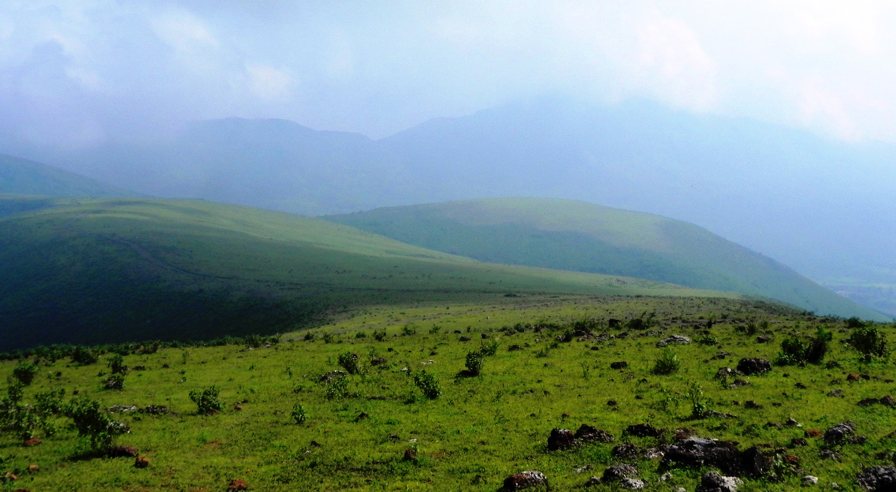 Deomali peak, pottangi Block in Koraput District